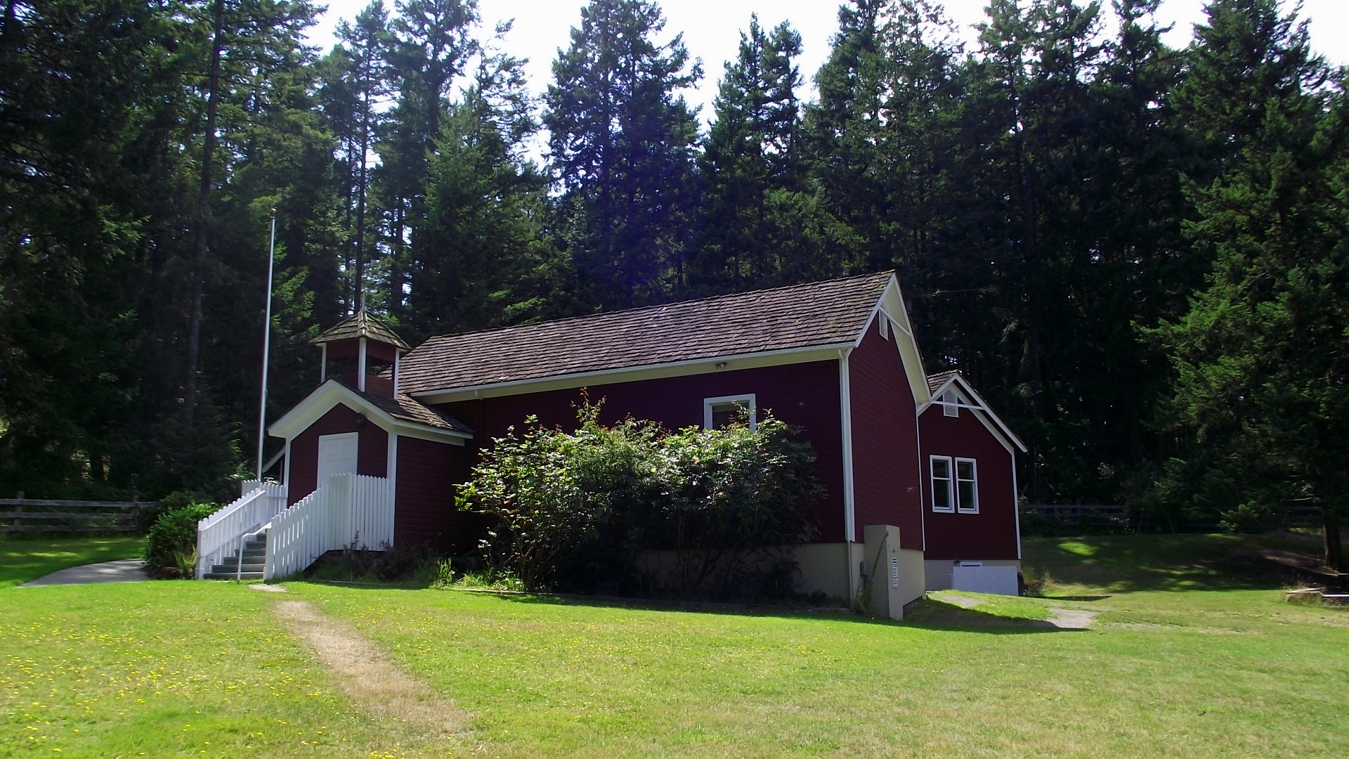 Blind Bay Road @ Hoffman Cove Road